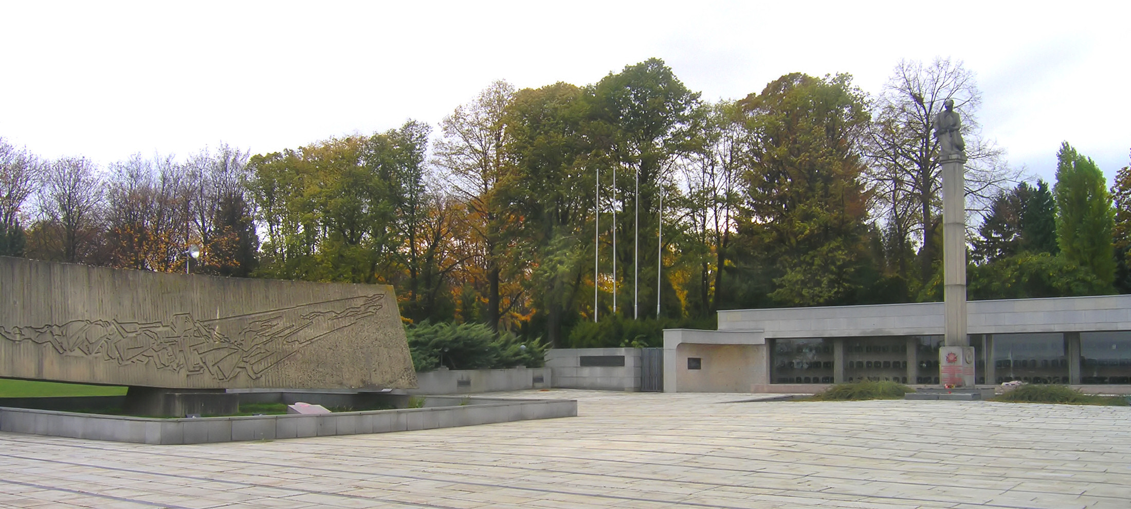 Soviet army memorial in Central cemetery in Brno, Czech Republic